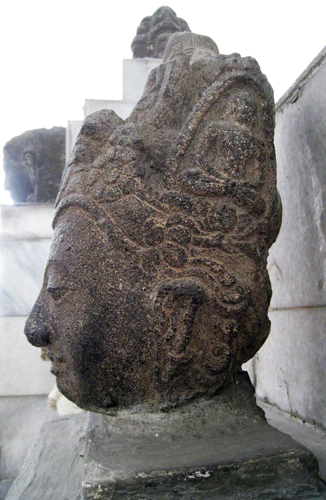 The stone head of Avalokiteshvara Boddhisattva, discovered in Aceh. The Amitabha Buddha is adorned his crown. Srivijayan art, estimated 9th century CE. Collection of National Museum of Indonesia, Jakarta Inv. 248.